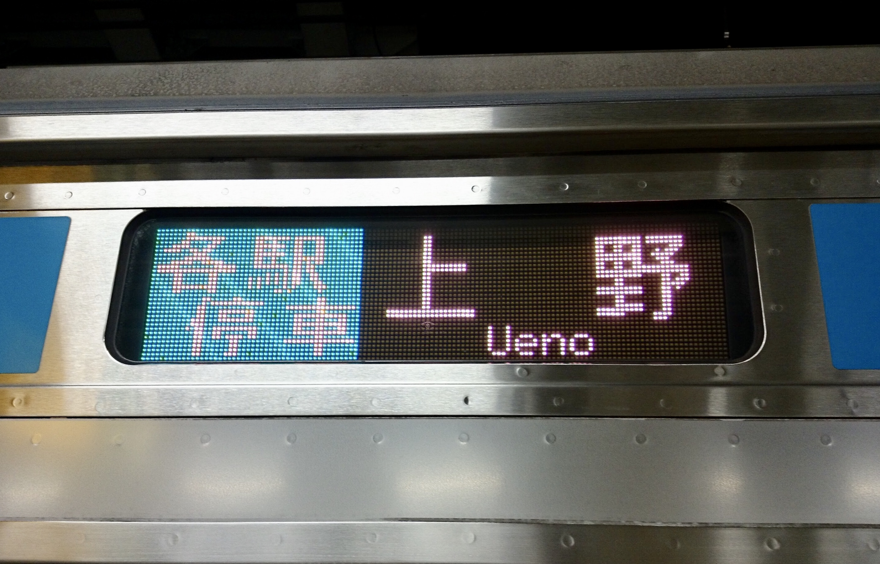 Keihin-Tohoku line local train for Ueno(series E233-1000)